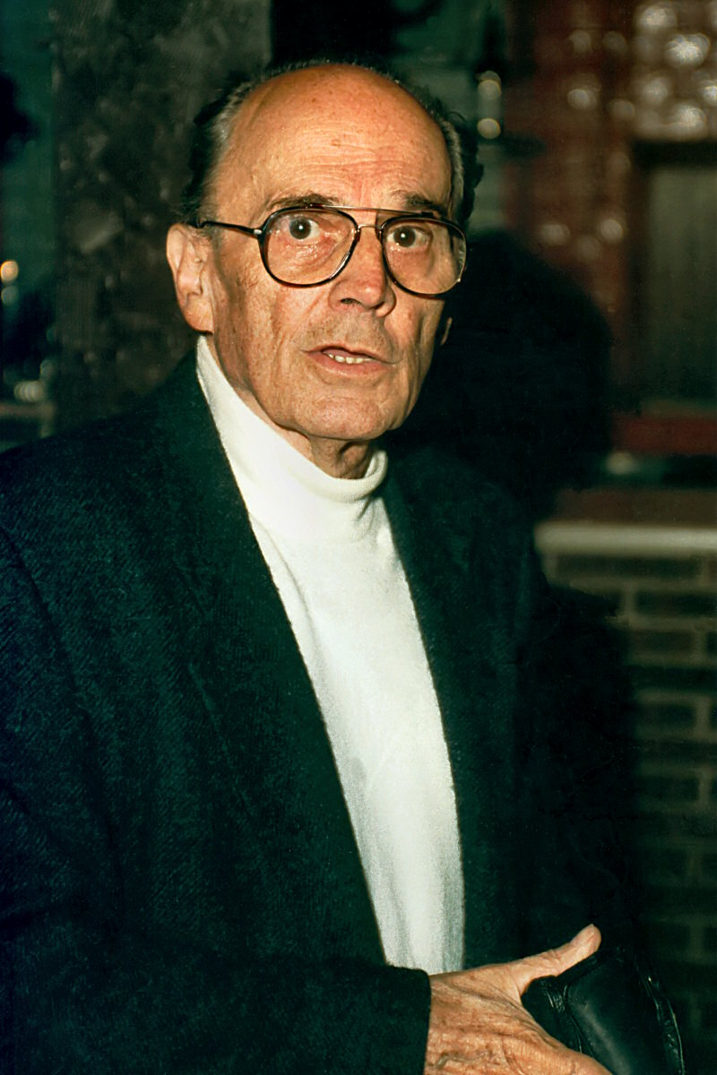 Heinz Waaske, who constructed lots of photographical equipment. He is best known for creating the Rollei 35 camera. This picture was taken about six weeks before his death in july 1995.